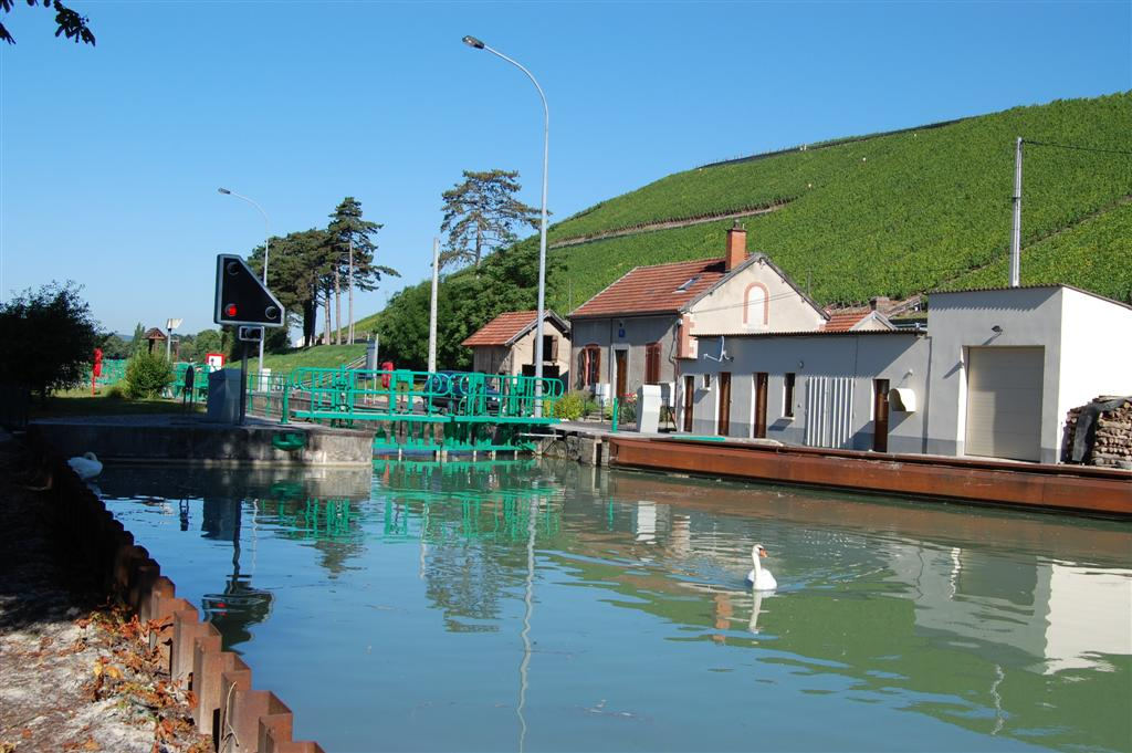 The lock at Mareuil-sur-Ay in the canal latéral à la Marne. On the right bank of the canal, the Clos des Goisses vineyard is visible.